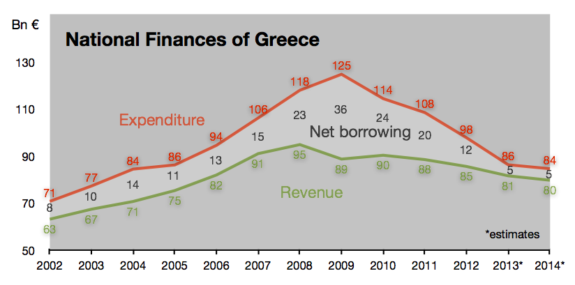 Greece National Finances - Public revenue vs public expenditure in Billion Euros since 2002